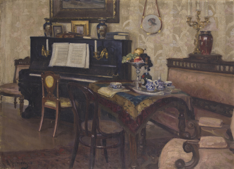 Interior. Still life